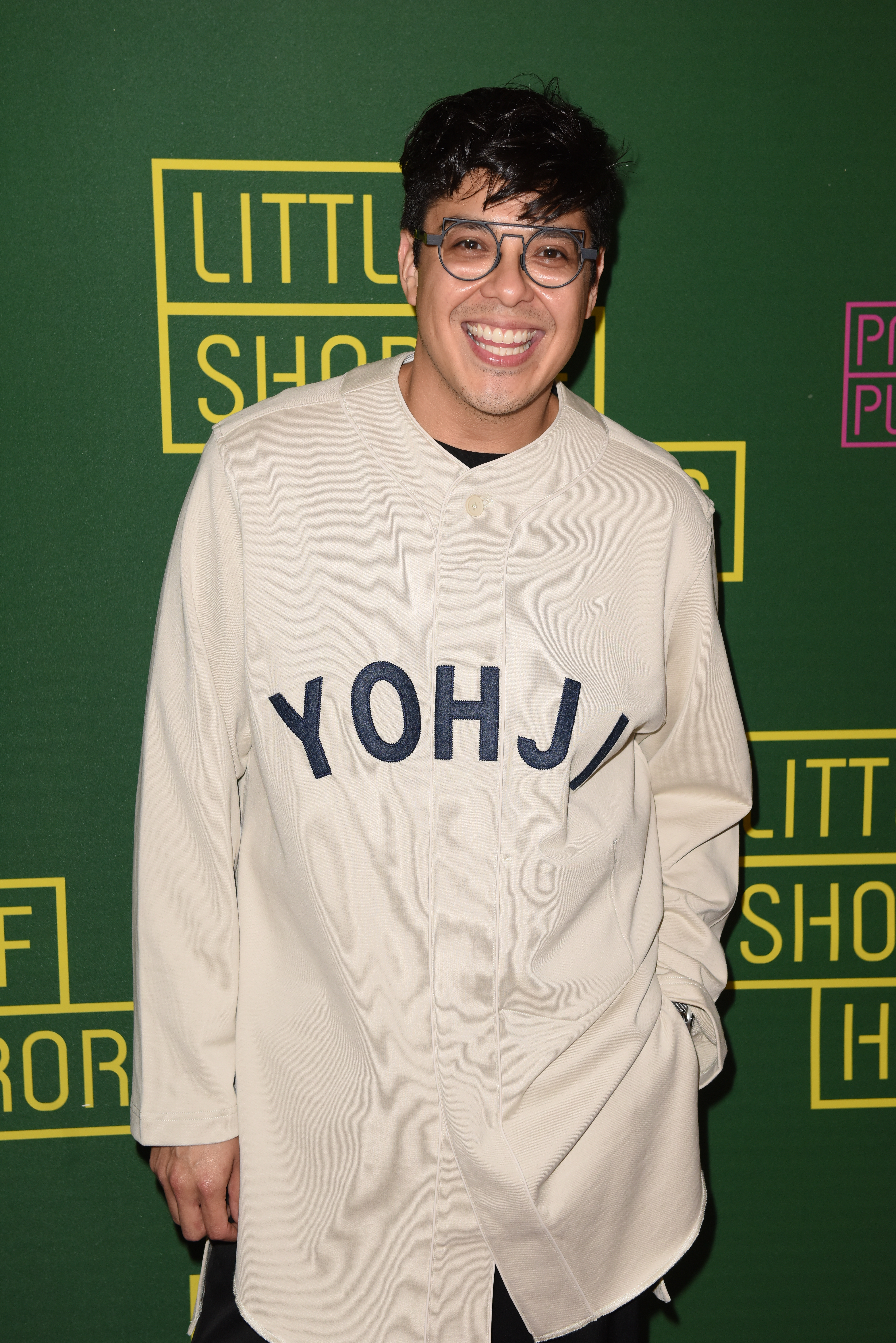 George Salazar at Opening Night of Little Shop of Horrors at the Pasadena Playhouse